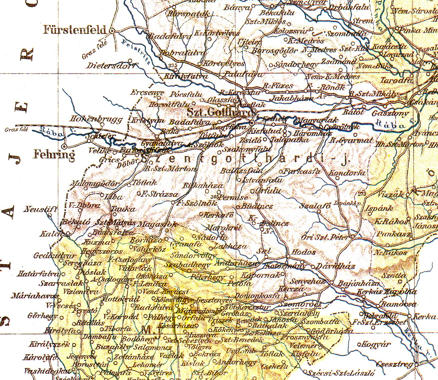 The District of Szentgotthárd-Muraszombat (19th century)